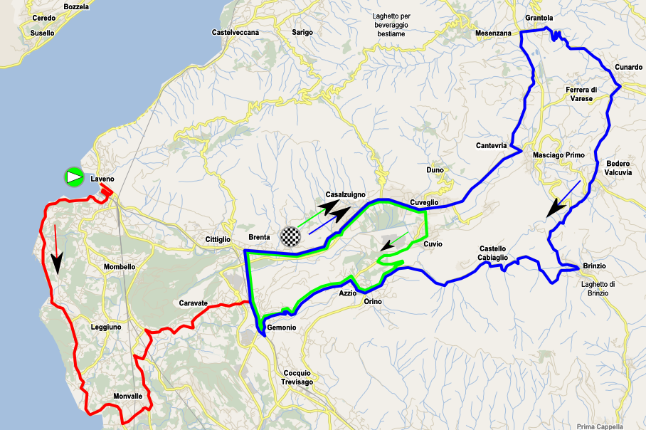 Maps of the Trofeo Alfredo Binda-Comune di Cittiglio 2015.